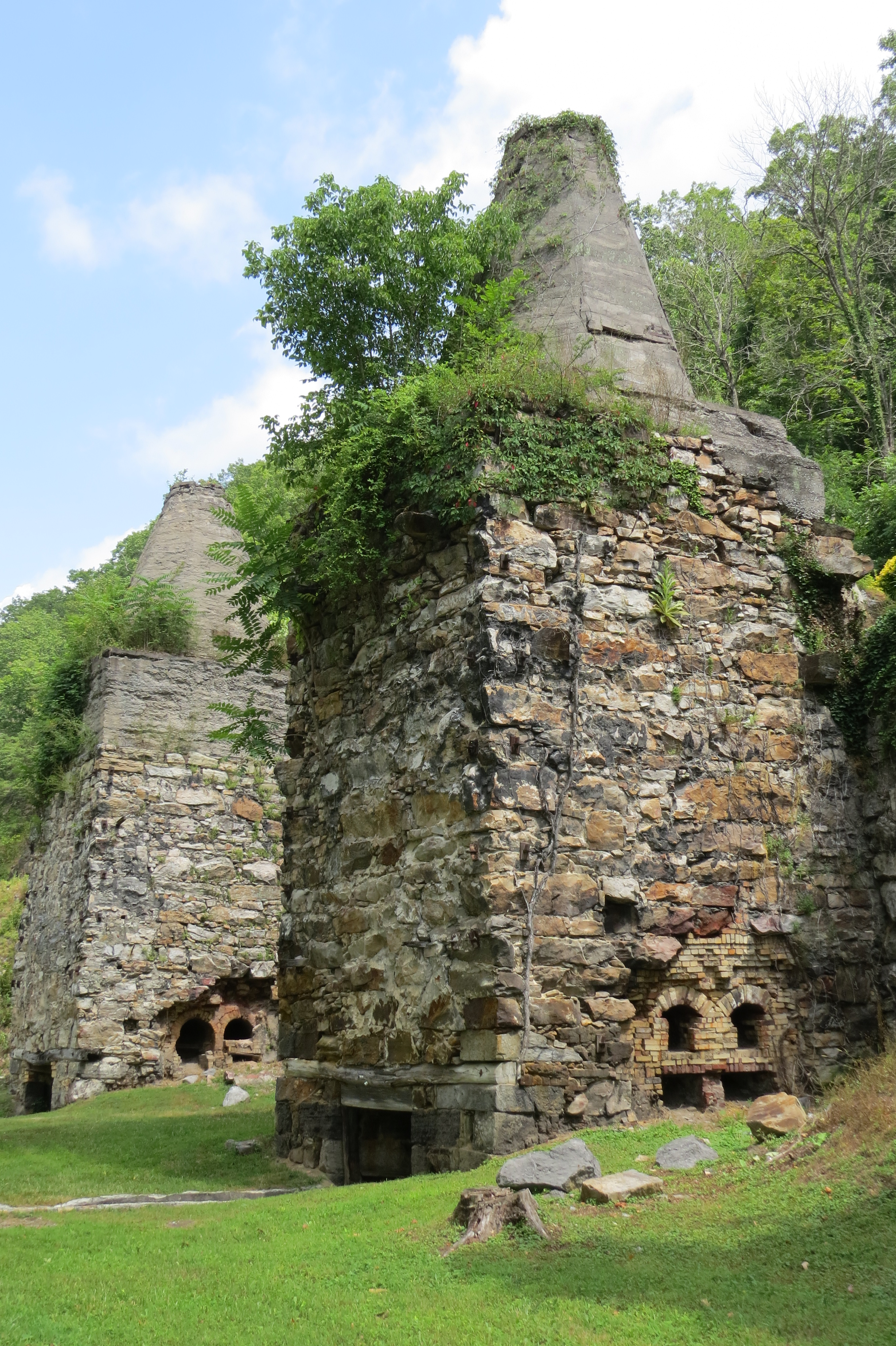 This is a limestone kiln used to burn limestone to make industrial lime.